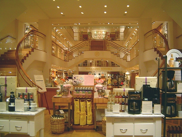 Williams-Sonoma store in San Francisco's Union Square.